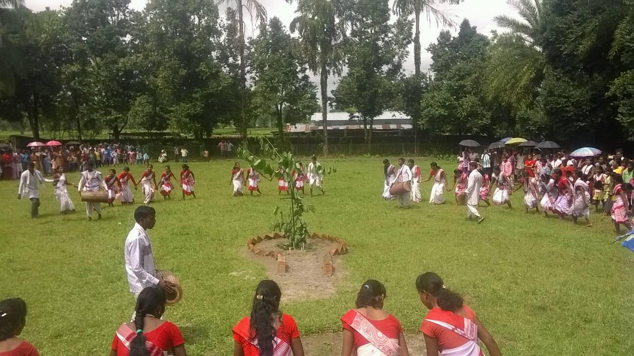 Festival of Karam being celebrated in North Lakhimpur, Assam